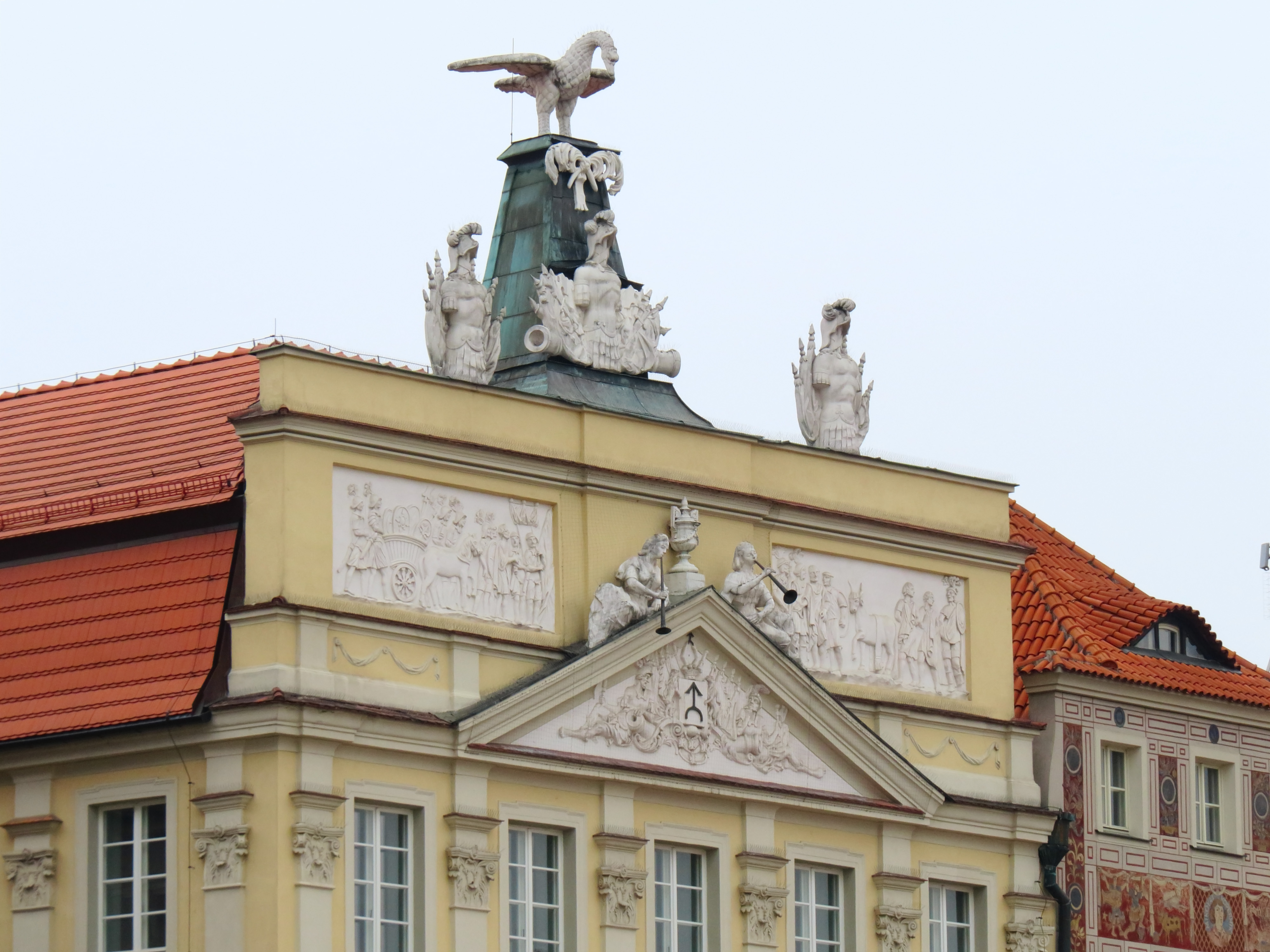 Działyński Palace in Poznań (78 Old Market Square)